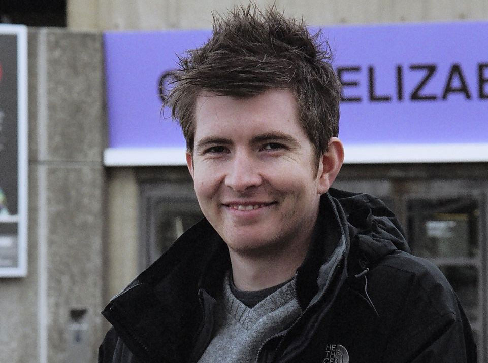 Gareth Malone